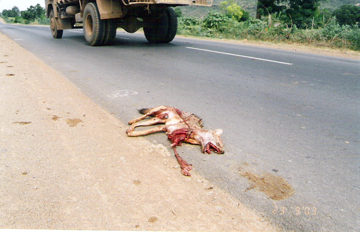 Jackal roadkill near Kurnool, Andhra pradesh